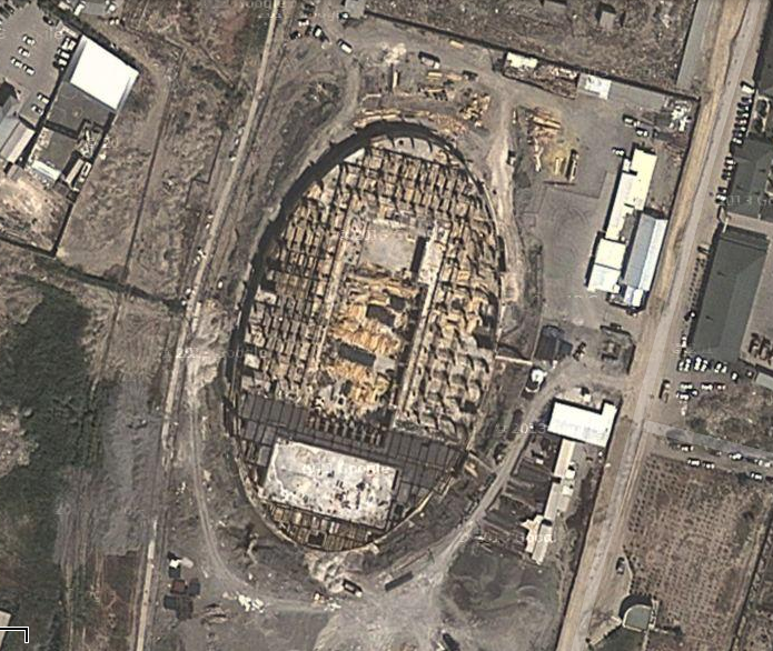 Located at the southern end of the Flag Square Cluster, the Baku Aquatics Centre will host the Swimming, Synchronized Swimming and Diving competitions at the 2015 European Games. The venue is currently under construction.